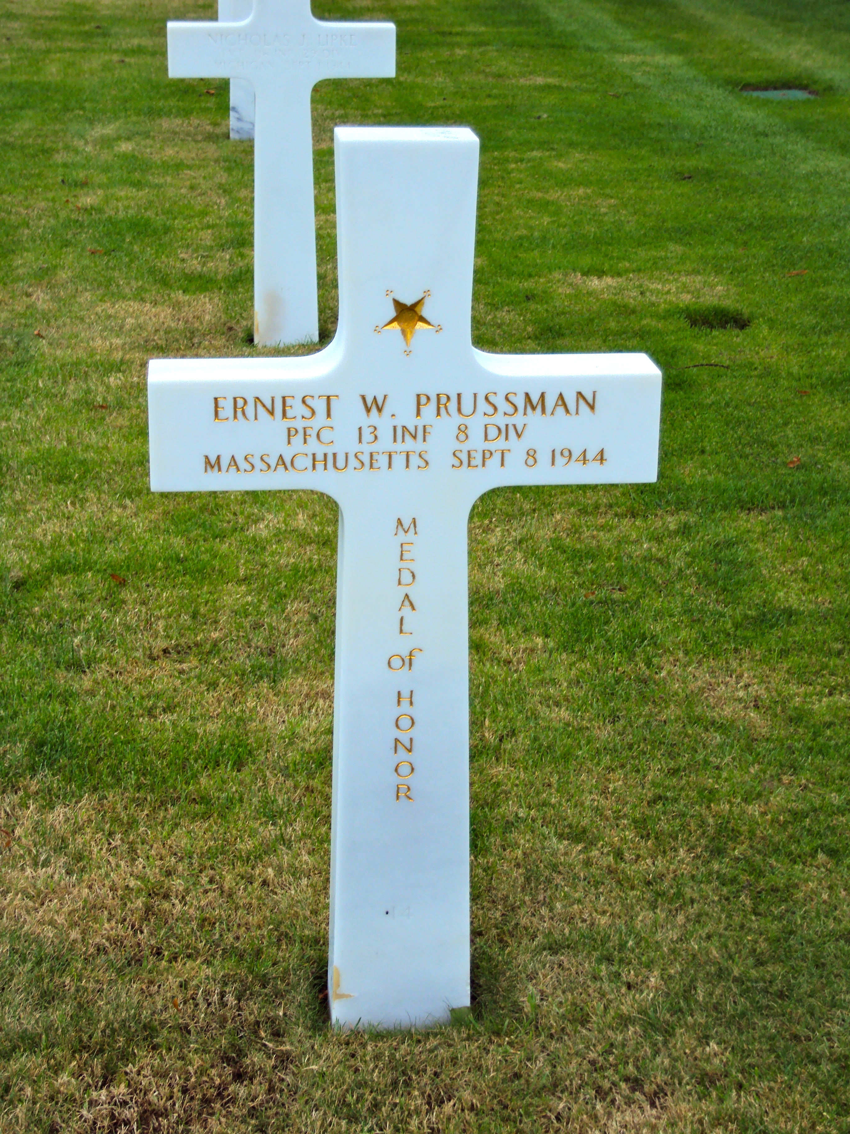 Tomb of Ernest W. Prussman at American Cemetery in Saint James, Normandie, France